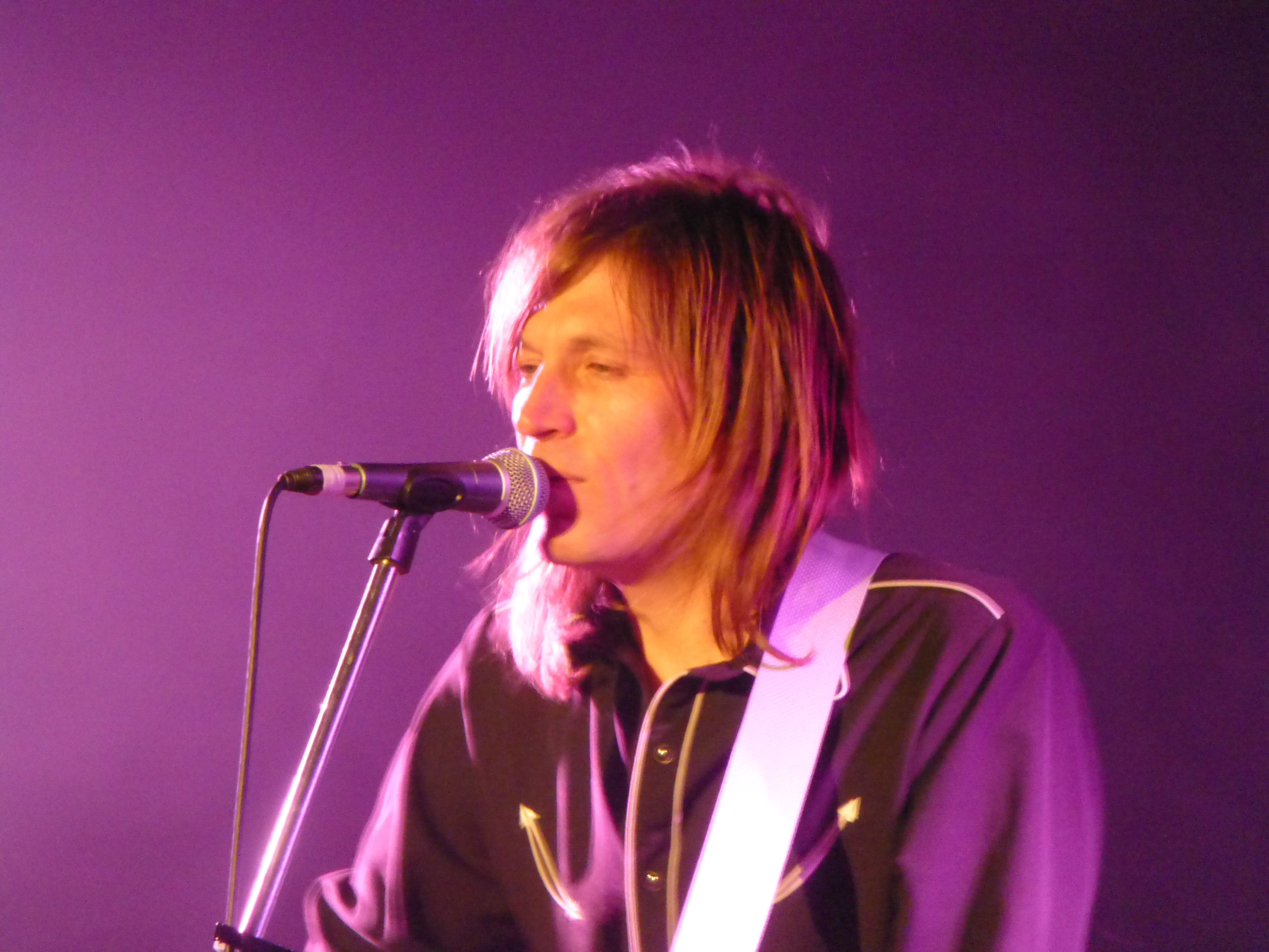 Evan Dando performing with the Lemonheads at The Corner Hotel, Melbourne, Australia.